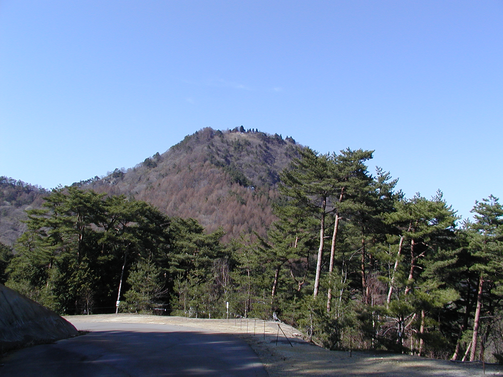 ObasuteYama (Mount Obasute), with Pinus densiflora